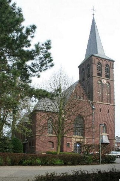 Cultural heritage monument No. 178 in Erkelenz